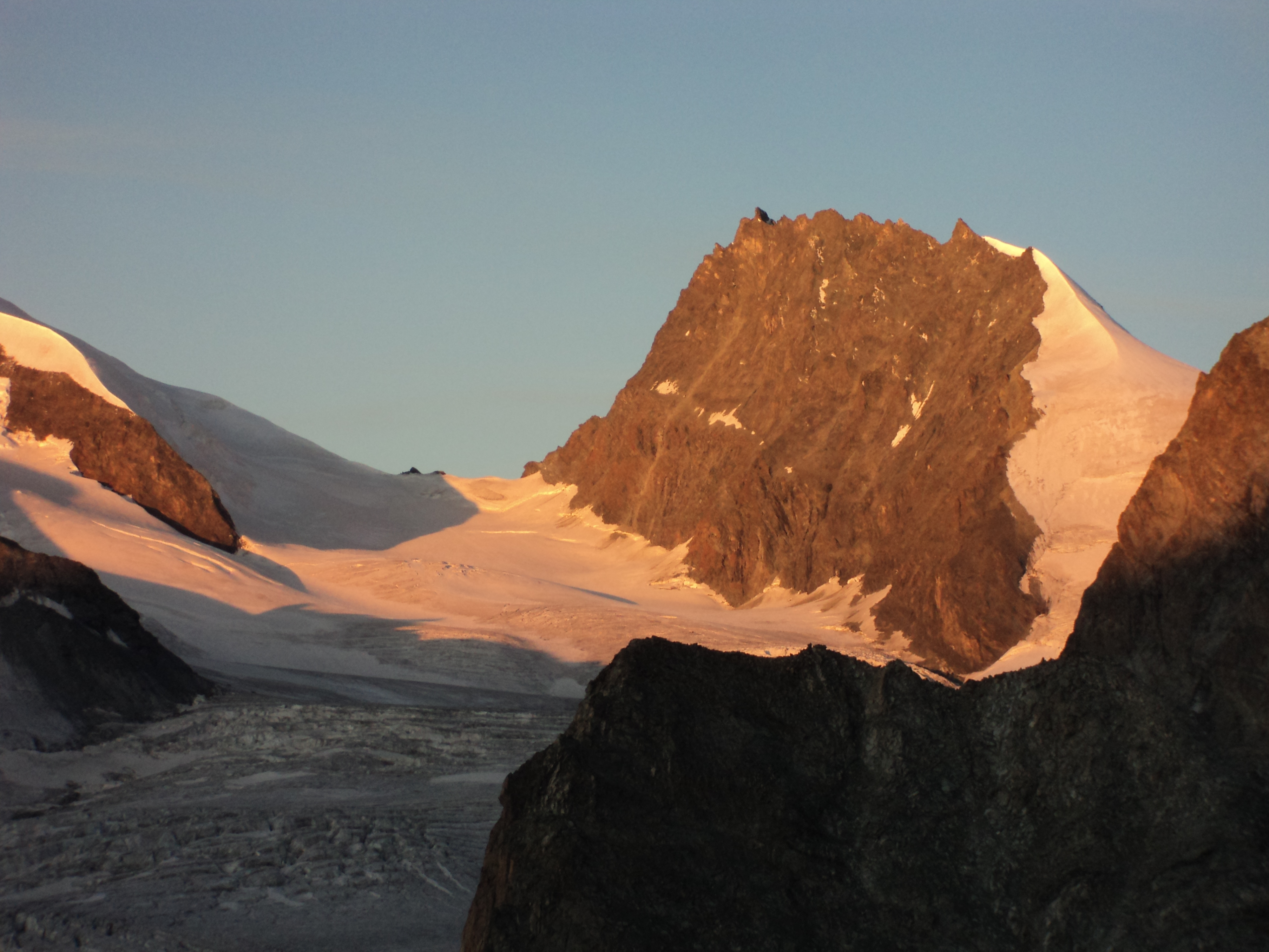 Rimpfischhorn from Britanniahütte